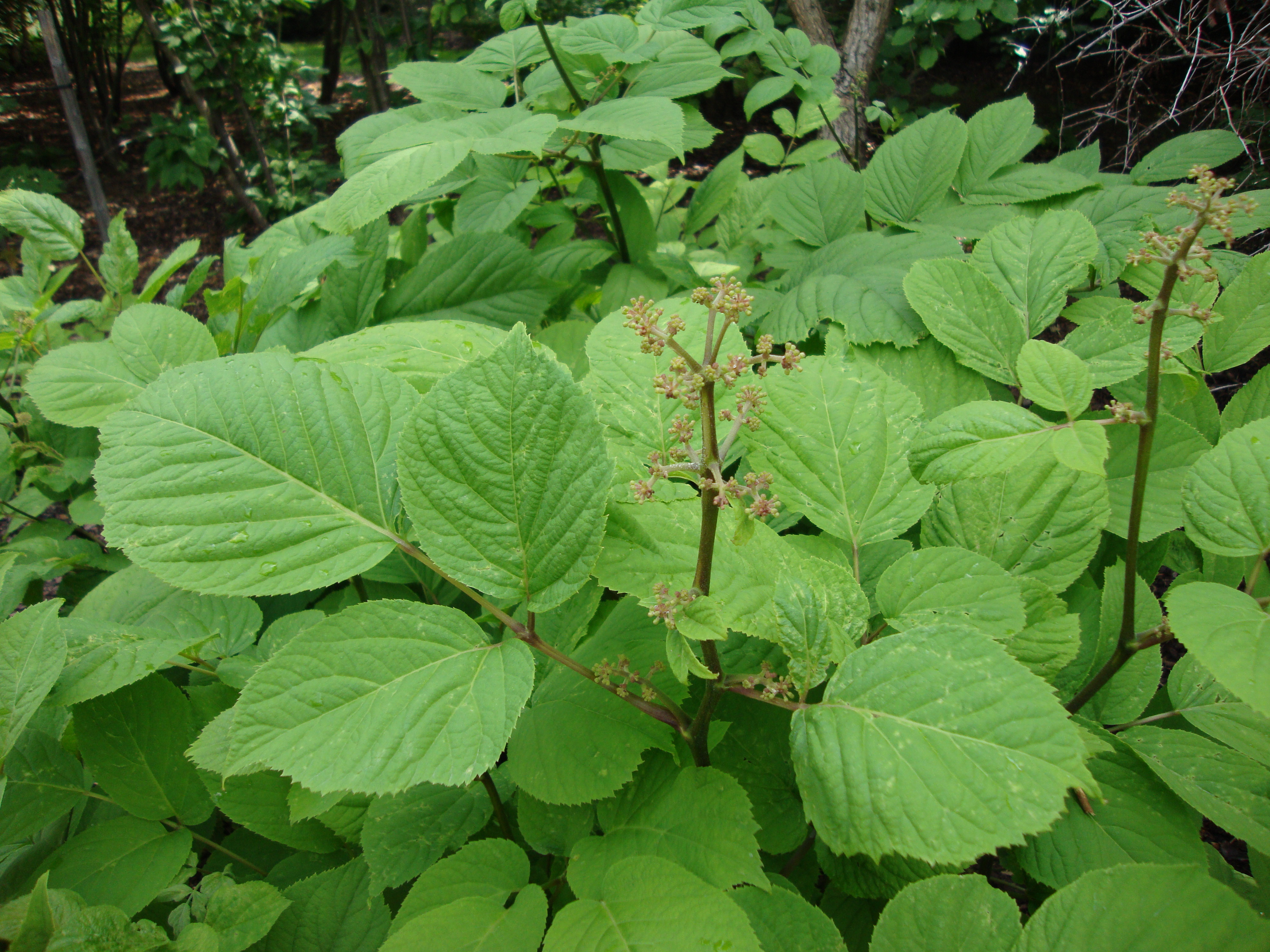 Manchurian spikenard (Aralia continentalis) in Helsinki University Botanical Garden in Kumpula